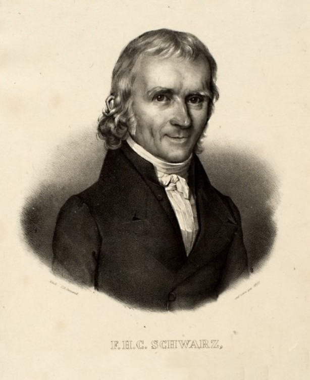 Lithography of the german theologian and education scientist Friedrich Heinrich Christian Schwarz